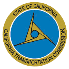 Seal of the California Transportation Commission.